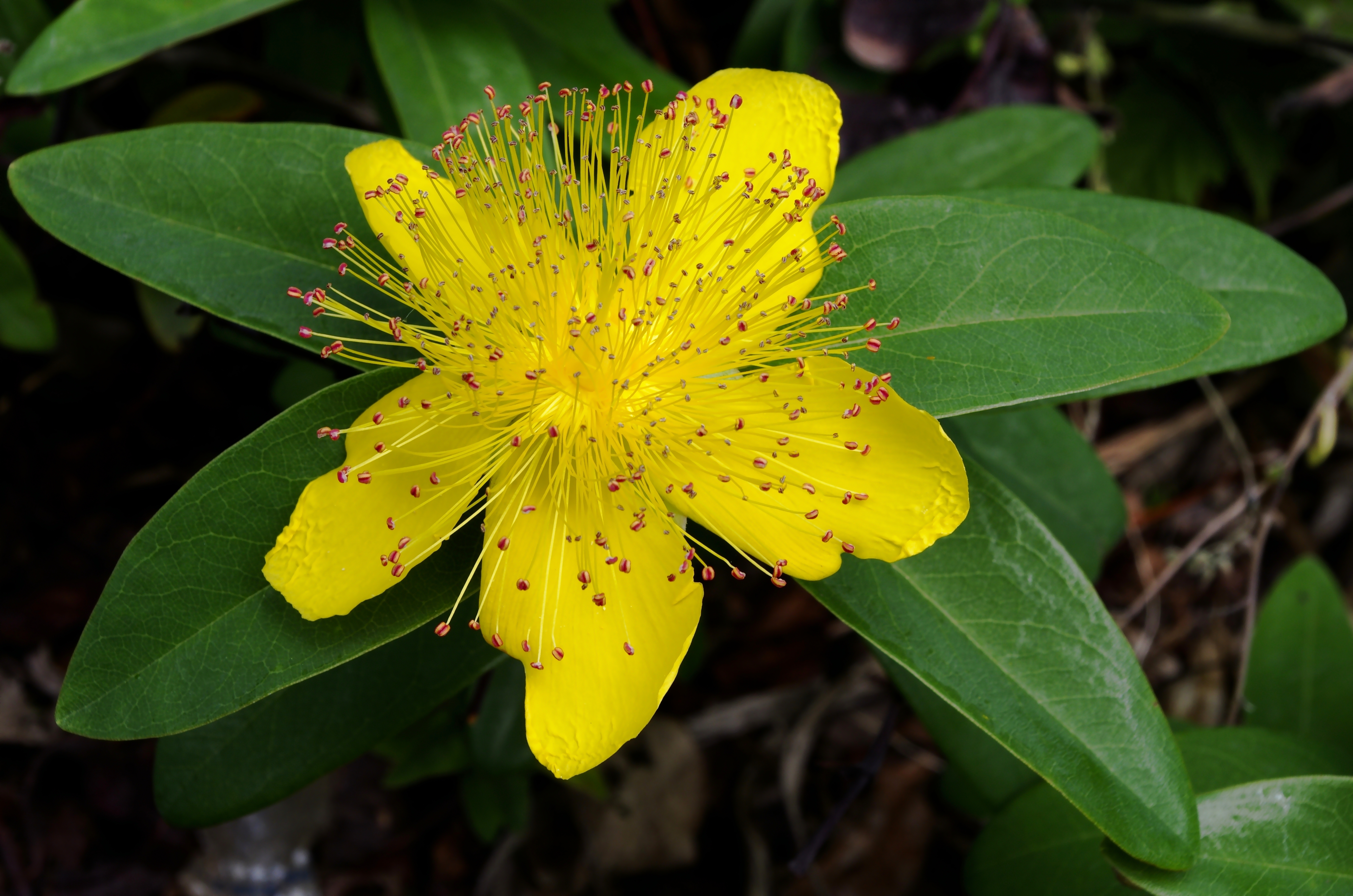 Rose of Sharon (Hypericum Calycinum), garden, France. APG IV Classification: Domain: Eukaryota • (unranked): Archaeplastida • Regnum: Plantae • Cladus: angiosperms • Cladus: eudicots • Cladus: core eudicots • Cladus: superrosids • Cladus: rosids • Cladus: eurosids I • Cladus: COM • Ordo: Malpighiales • Familia: Hypericaceae • Genus: Hypericum L. (1753)